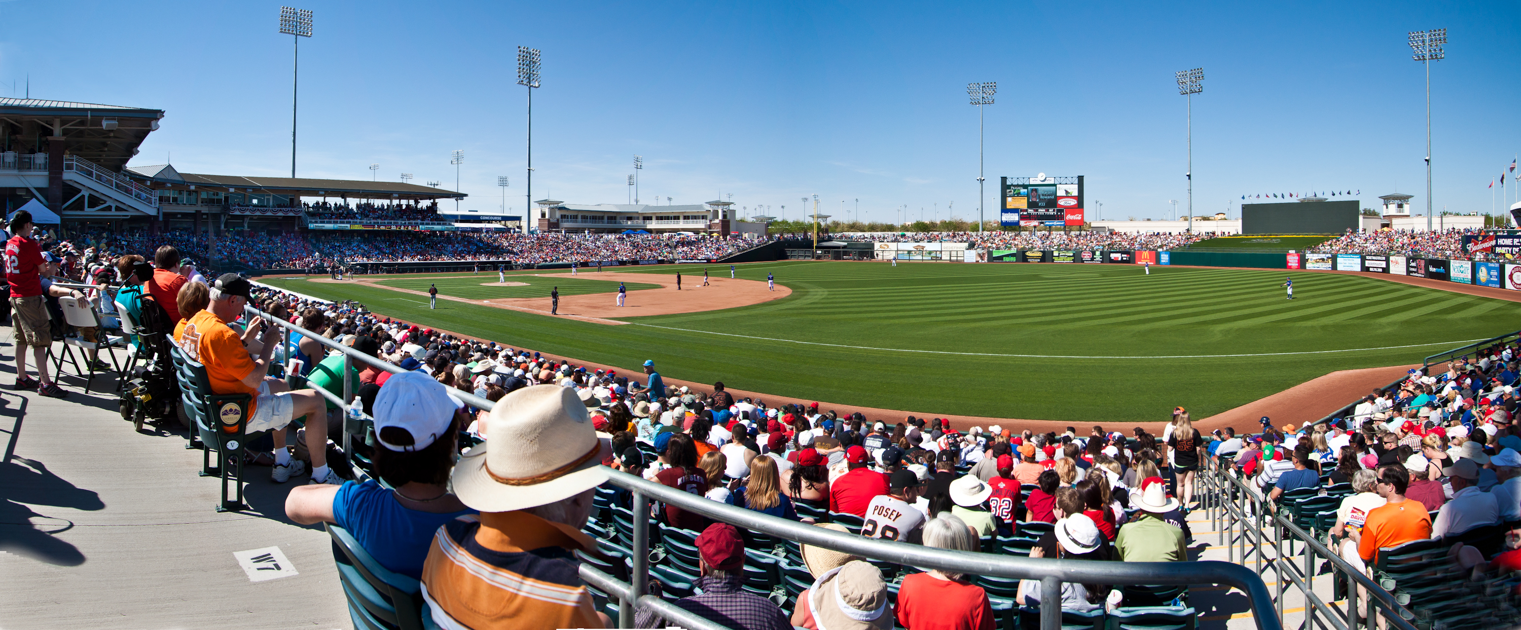 Panorama shot of Surprise Stadium, Surprise Arizona